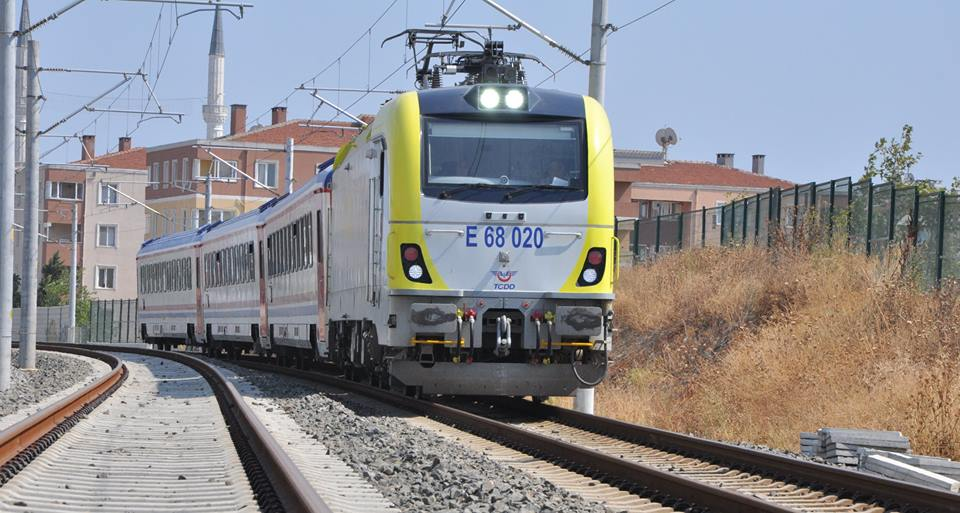 A westbound Ada Express train near Icmeler.